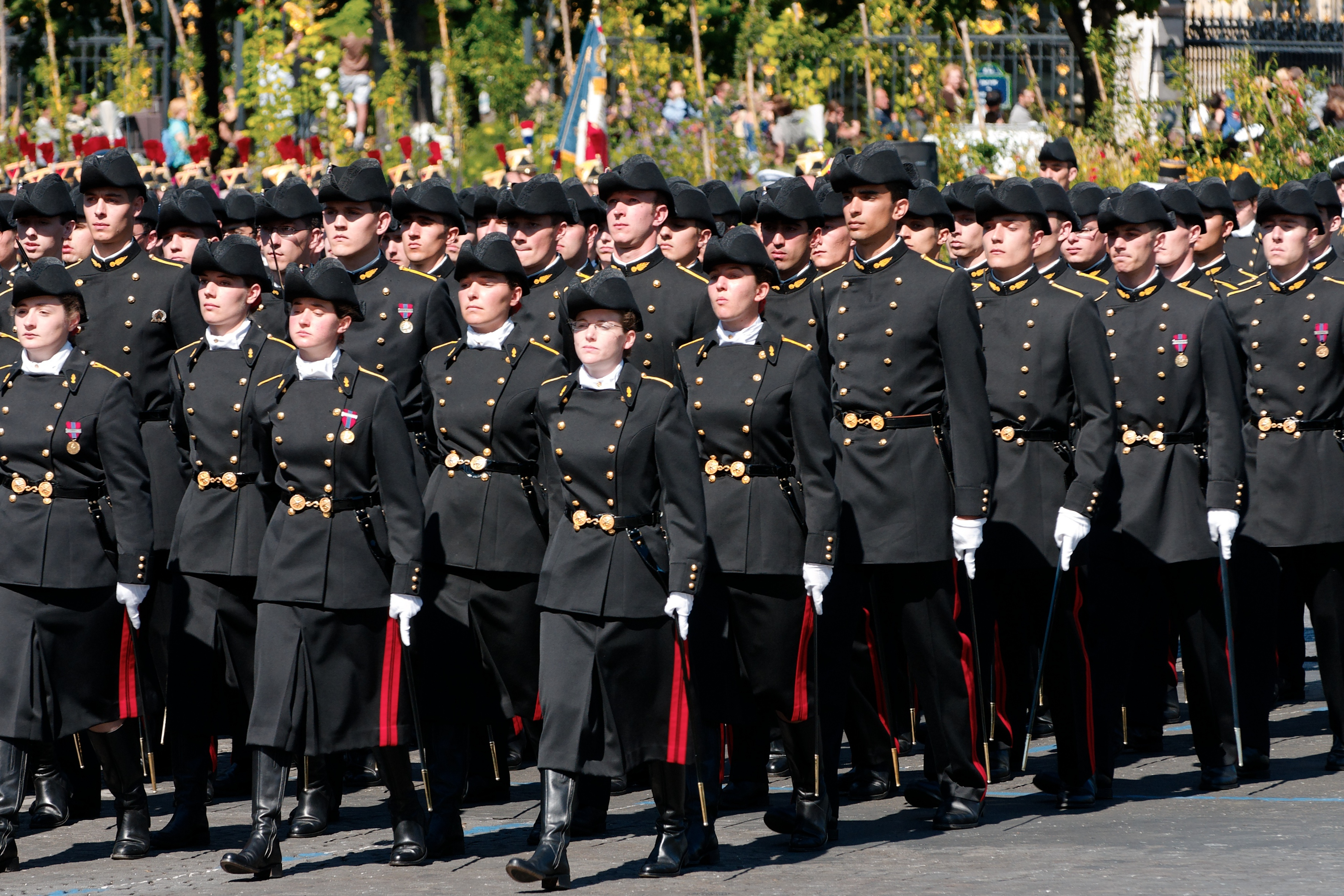 École polytechnique, Bastille Day 2008 military parade on the Champs-Élysées, Paris.